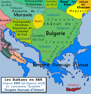 Historic map of Balkan peninsula, year 865